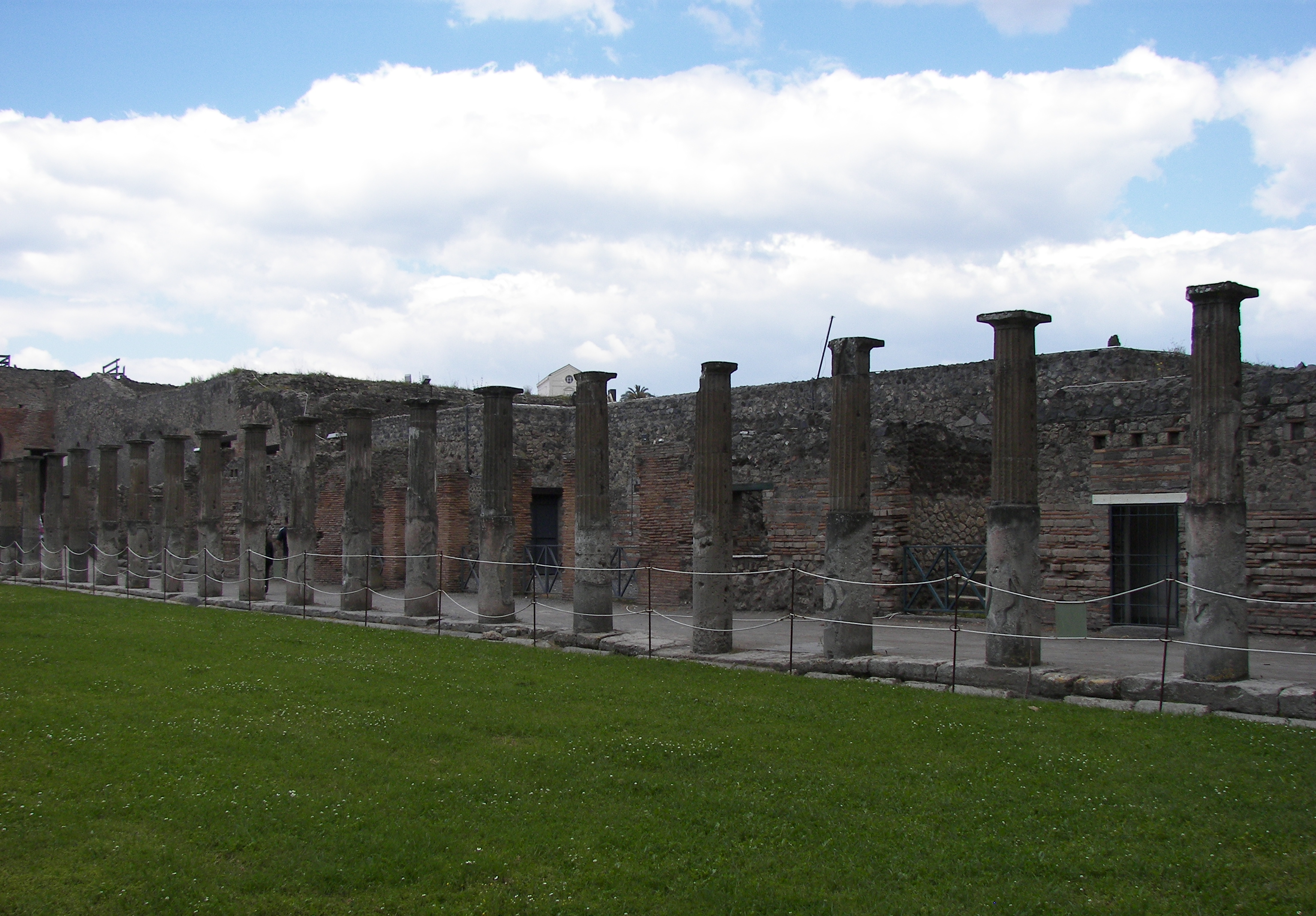 Gladiator barracks of Pompeii near the large theatre.